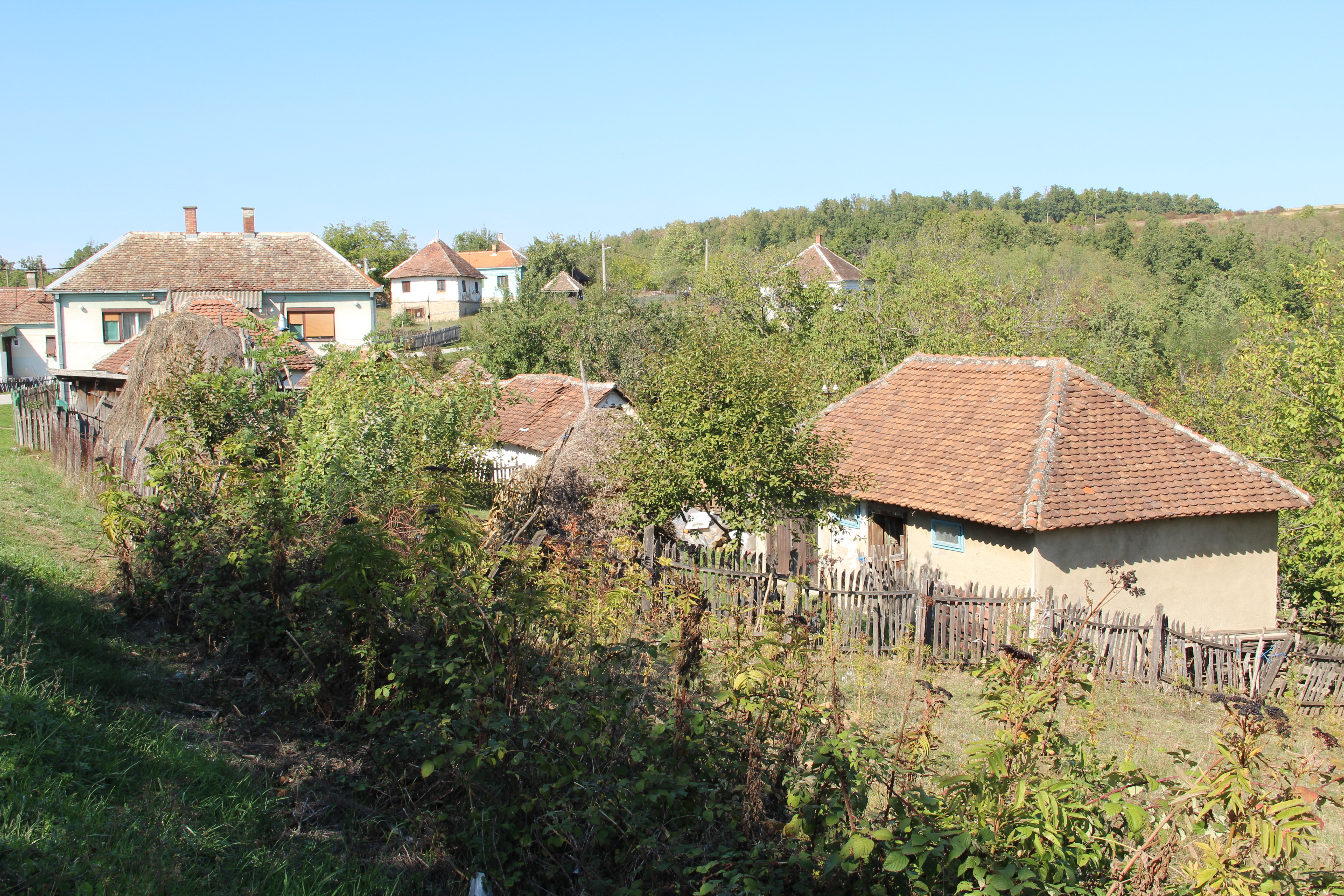 Valjevska Loznica village - Municipality of Valjevo - Western Serbia - Panorama 7